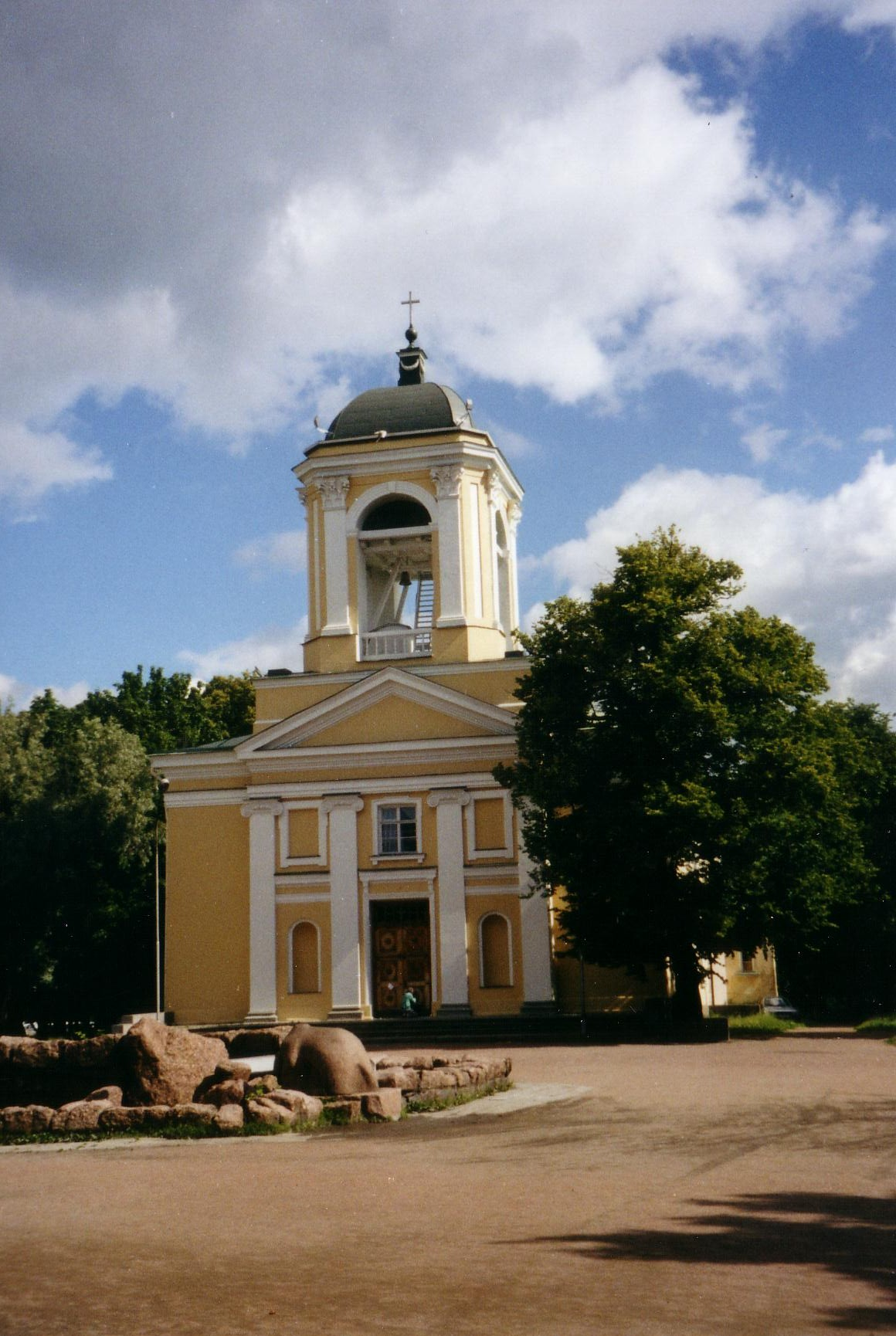 Saints Peter and Paul Lutheran Church, built in 1799, in Vyborg, Russia.